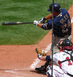 Picture I took of Brian Giles on 5-10-07 23:37, 13 May 2007 . . Chrisjnelson . . 232×245 (116,458 bytes)